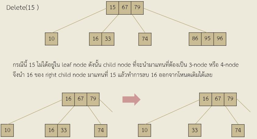 กรณีที่เลขที่ต้องการลบไม่ได้อยู่ใน leaf node ดังนั้น child node ที่จะนำมาแทนที่ต้องเป็น 3-node หรือ 4-node